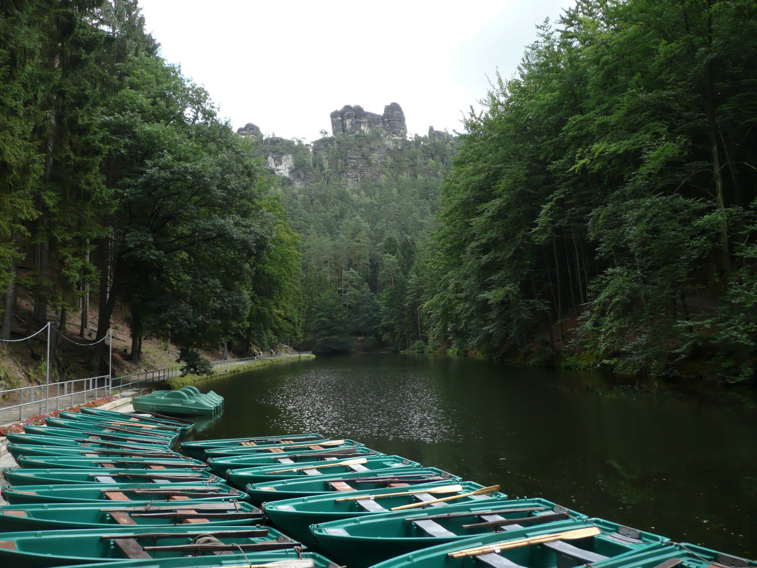 This image shows the "Amselsee", a small reservoir near Rathen in the Saxon Switzerland.